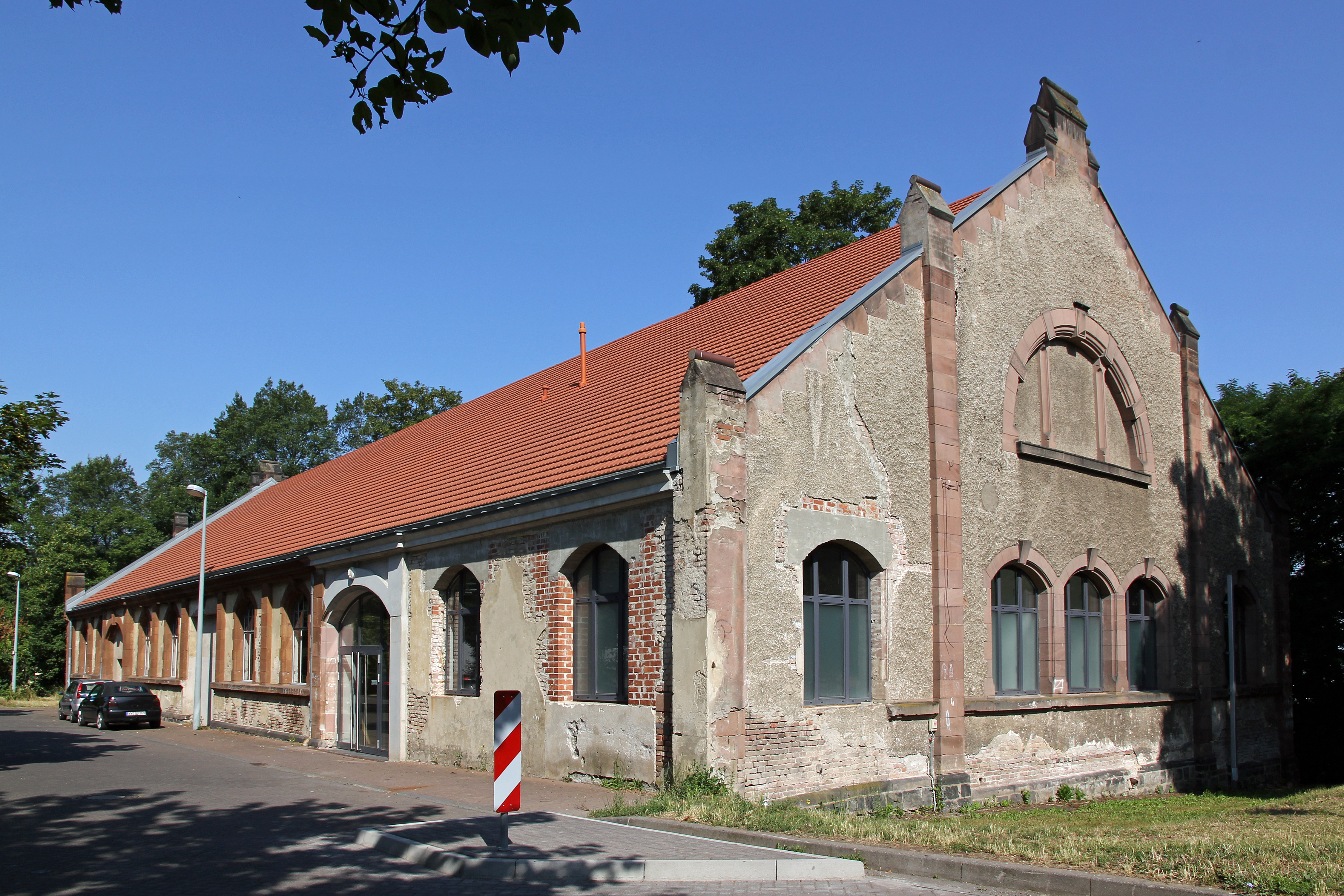 Remaining building of former barrack Erbgroßherzog Friedrich Koblenz